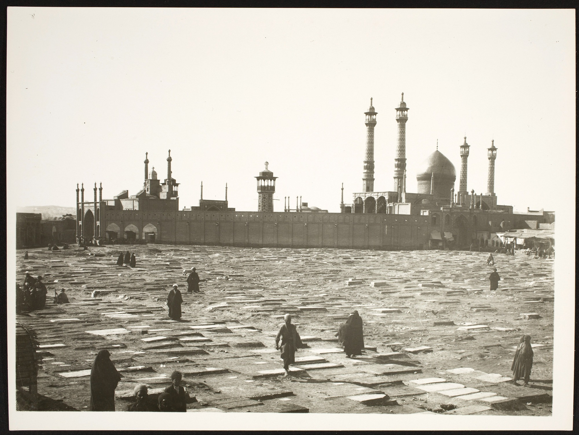 Antoin sevruguin's historical photographs